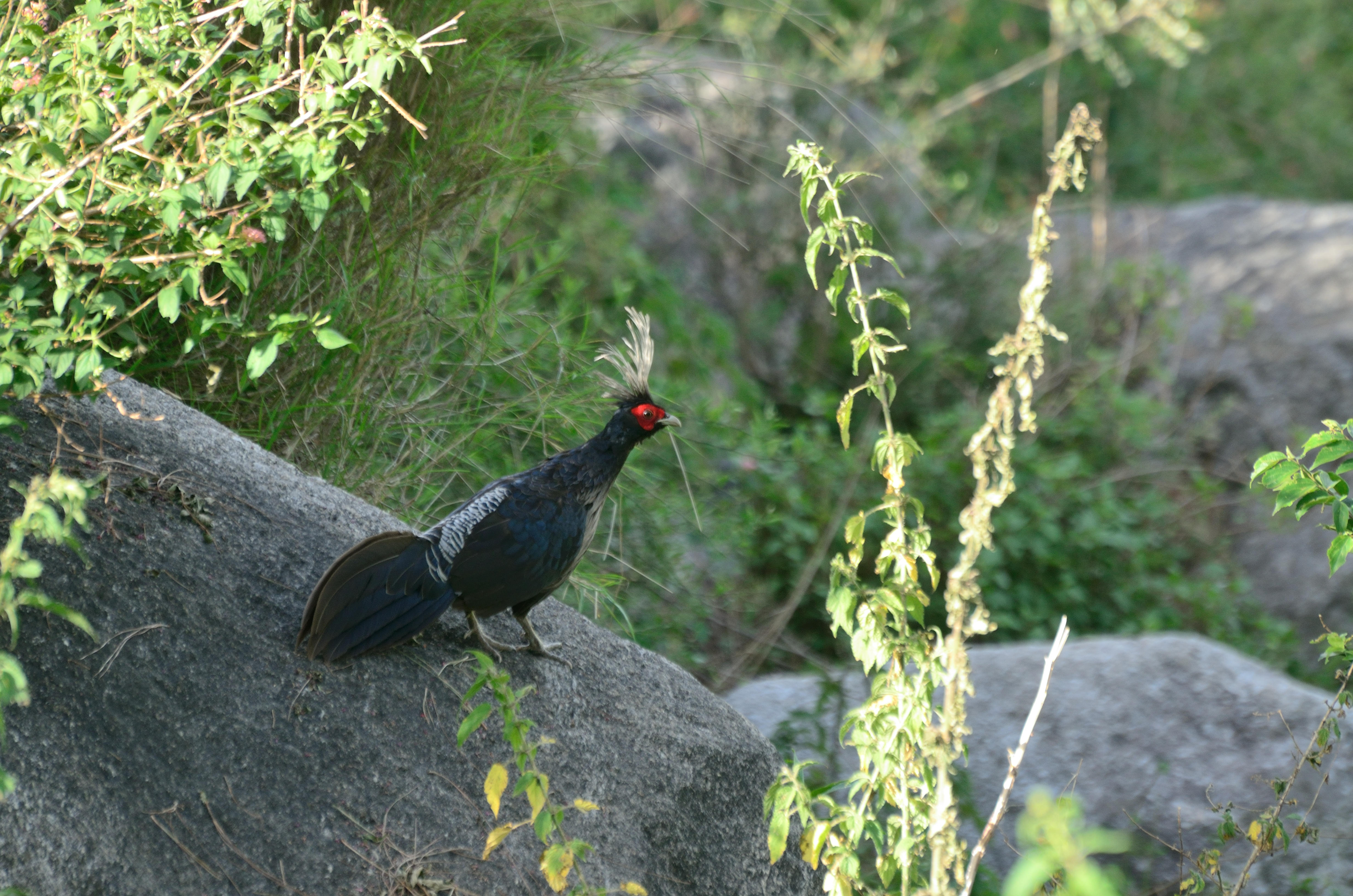 Near the hills close to Rakkar, Himachal Pradesh India June 2014